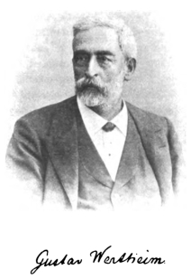 Gustav Wertheim (1843 - 1902), German Mathematician